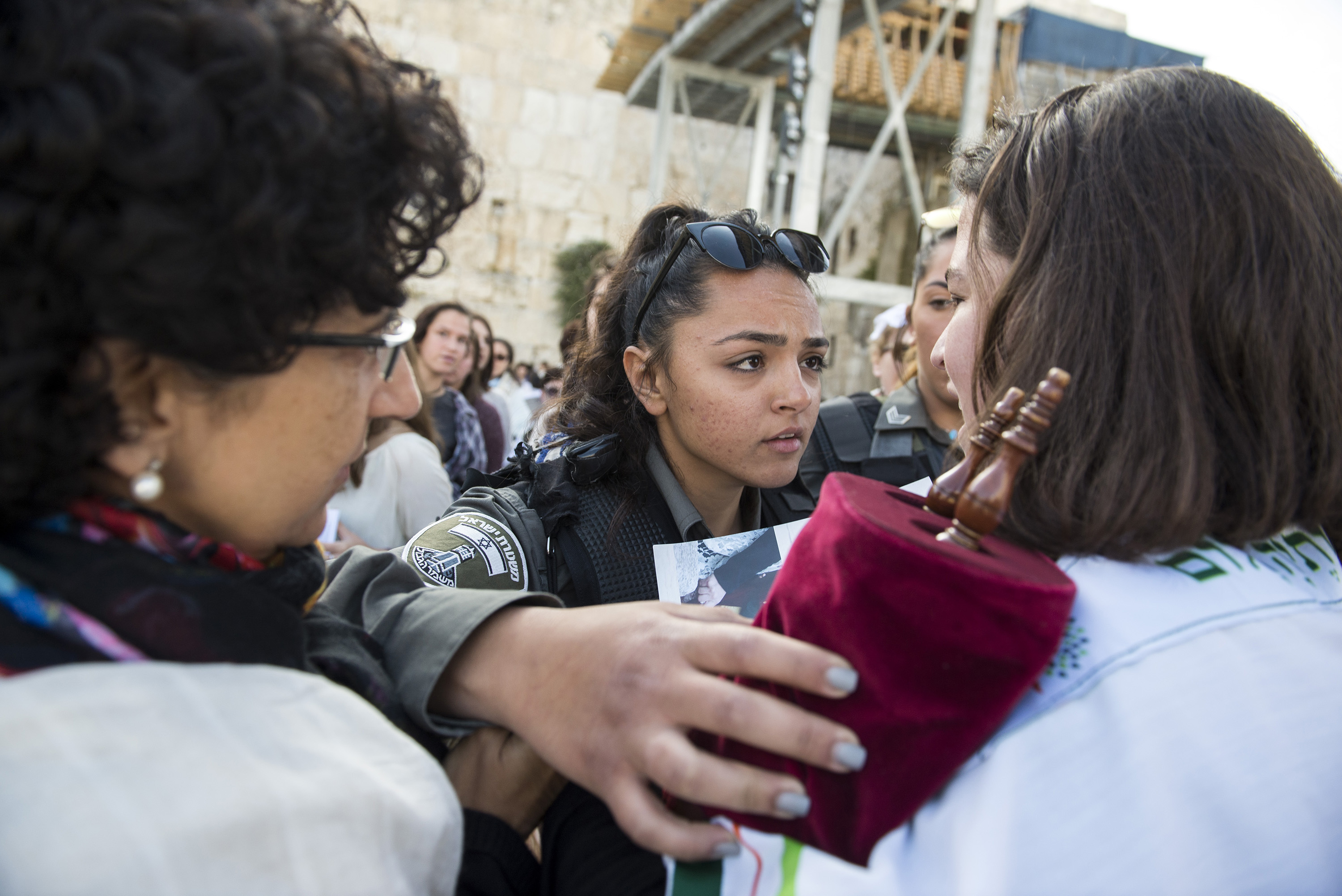 border guard garbing the Torah Scroll out of the hands of one of the members of the group